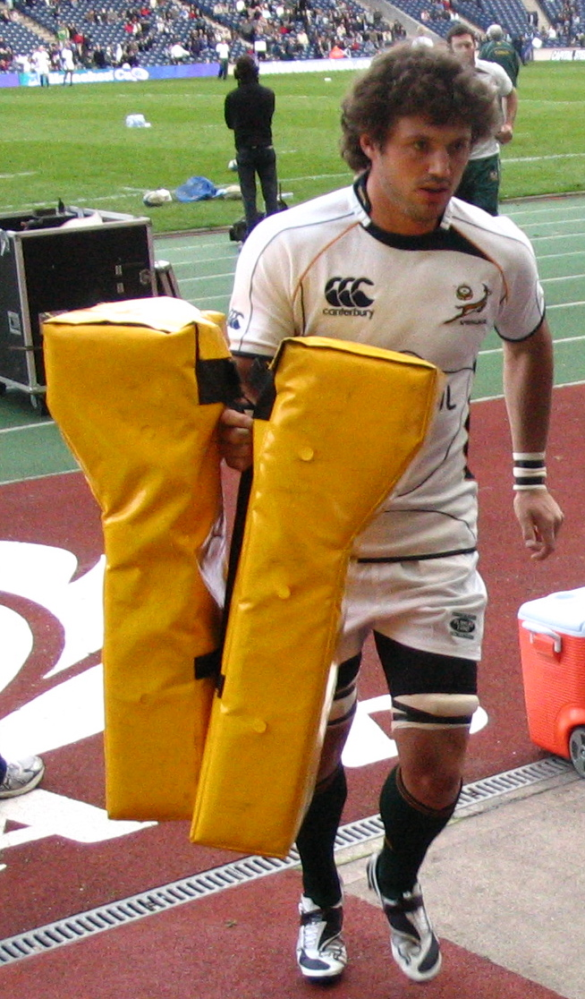 South Africa rugby union player Ryan Kankowski after warm-up at the Murrayfield in Edinburgh.